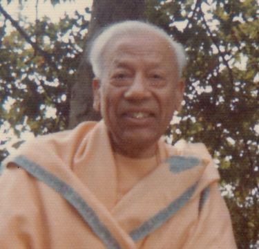 This is a photo I took of Swami Prabhavananda at the Hollywood Vedanta Temple in 1975.